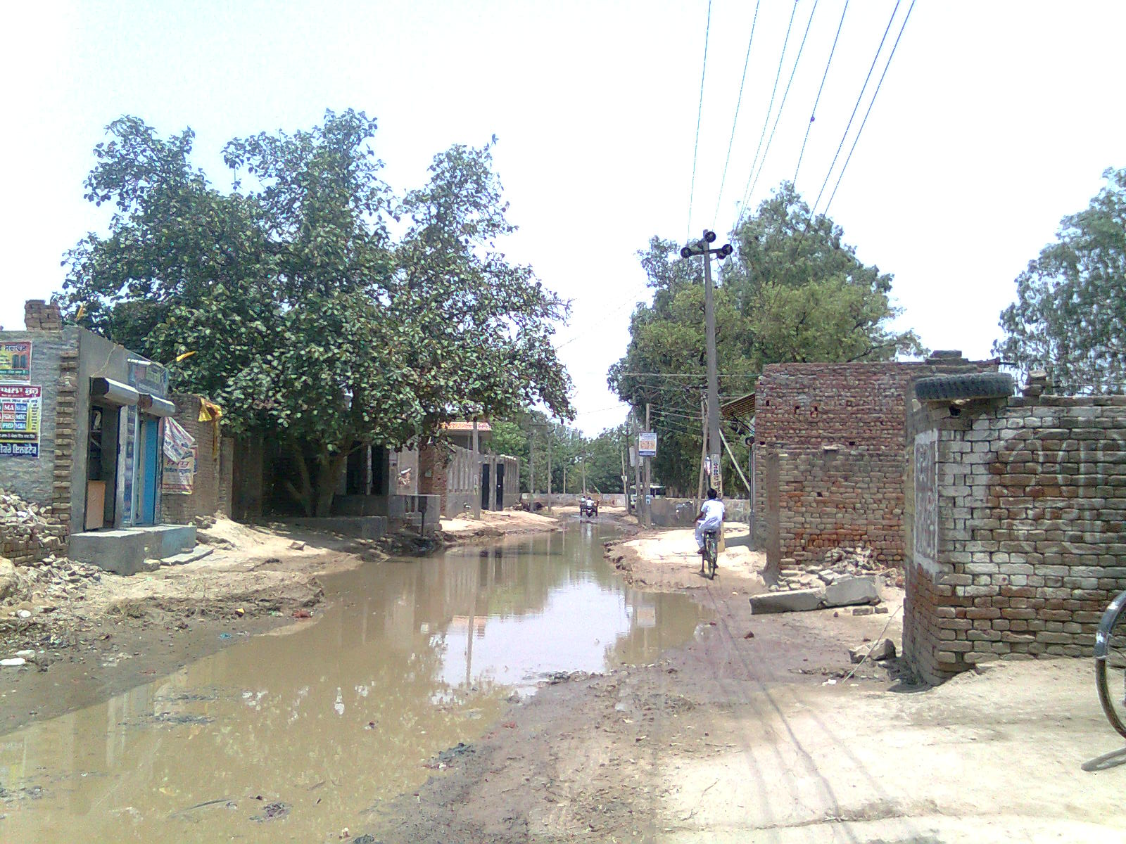 The flooded Phirni of Raipur village of Mansa district in East Punjab, due to bad drainage system.